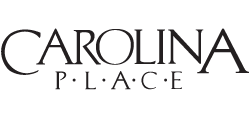 This is the logo for the shopping mall Carolina Place Mall in Pineville, Mecklenberg County, North Carolina.